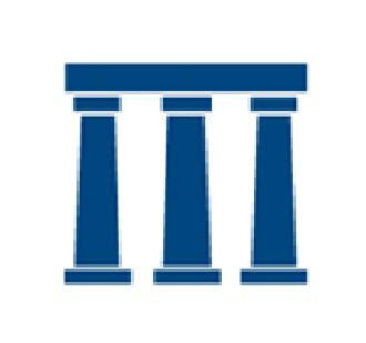 Moffett Group Logo